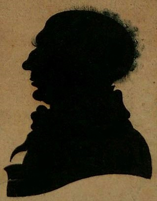 A silhouette portrait of the Cumberland poet Robert Anderson from the 1820s. Tullie House Museum, Carlisle